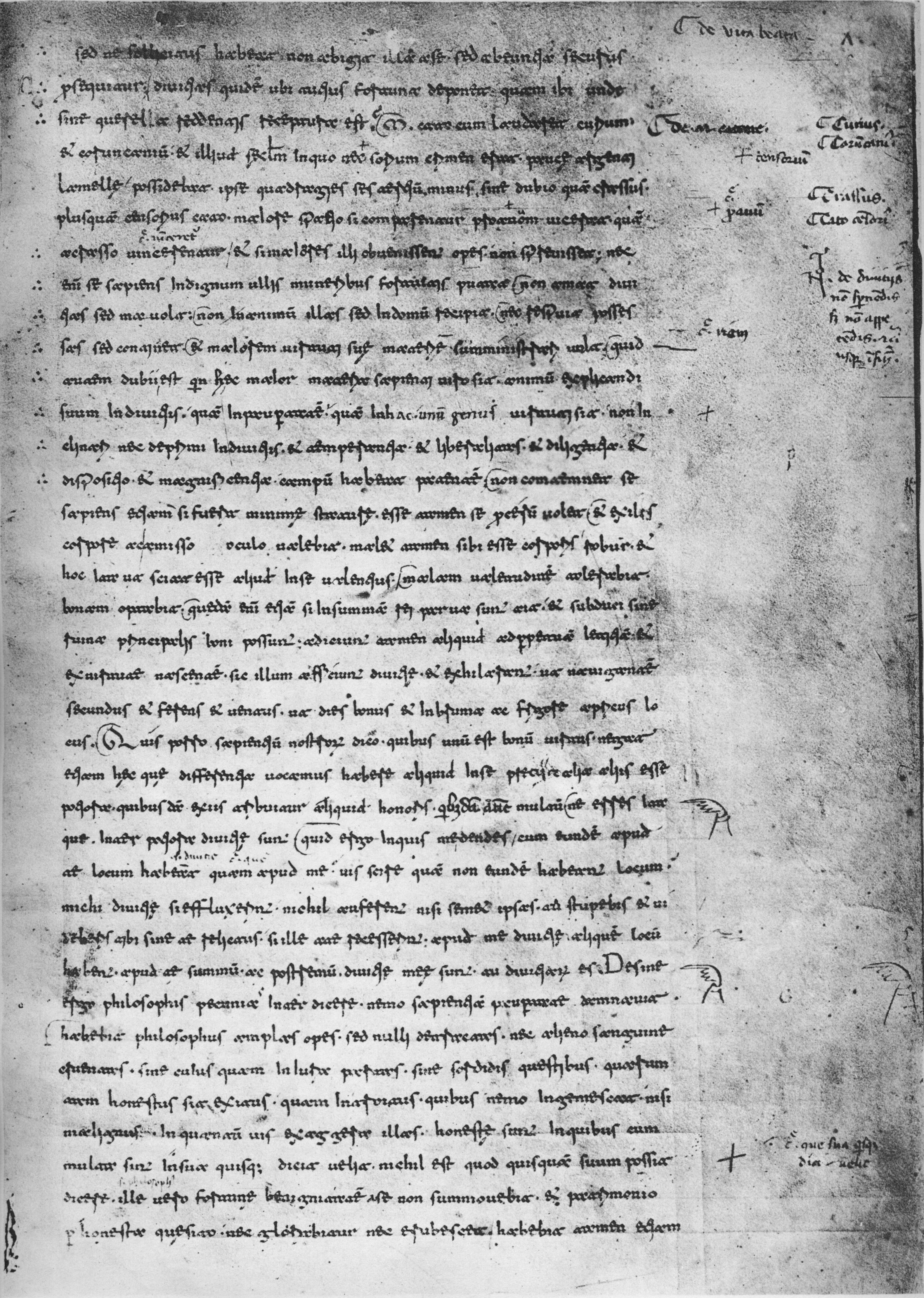 Seneca the Younger, Dialogues (Book 7), in ms. Milan, Biblioteca Ambrosiana, C 90 inf., fol. 57r.